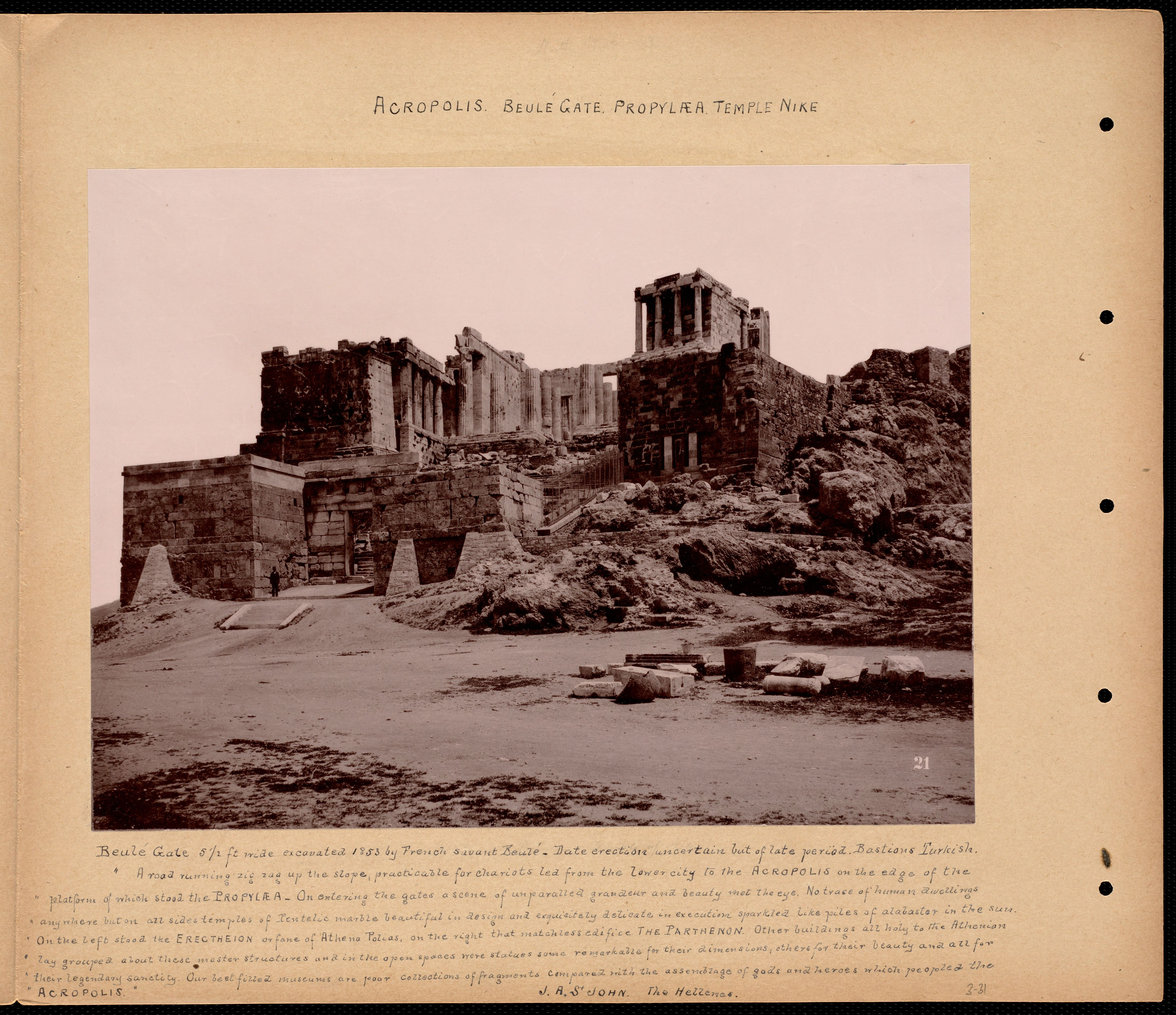 BPLDC no.: 08_04_000414 Page Title: Acropolis. Beulé Gate. Propylaea. Temple Nike Collection: Tupper Scrapbooks Collection Album: Volume 3: Athens. Call no.: 4098B.104 v3 (p. 31) Creator: Tupper, William Vaughn Genre: Scrapbooks; Albumen prints Extent: 1 photographic print mounted on page : albumen ; page 33 x 39 cm. Description: Scrapbook page contains one photograph of the Beulé Gate, Propylaea, and Temple Nike at the Athens Acropolis. Annotated information describes the history and architecture of the site. Transcription: Beulé Gate 5 1/2 ft wide excavated 1853 by French savant Beulé. Date erection uncertain but of late period. Bastions Turkish. "A road running zig zag up the slope, practicable for chariots led from the lower city to the Acropolis on the edge of the platform of which stood the Propylaea. On entering the gates a scene of unparalled [sic] grandeur and beauty met the eye. No trace of human dwellings anywhere but on all sides temples of Pentelic marble beautiful in design and exquisitely delicate in execution sparkled like piles of alabaster in the sun. On the left stood the Erectheion orfane of Athena Polias, on the right that matchless edifice the Parthenon. Other buildings all holy to the Athenian lay grouped about these master structures and in the open spaces were statues some remarkable for their dimensions, others for their beauty and all for their legendary sanctity. Our best filled museums are poor collections of fragments compared with the assemblage of gods and heroes which peopled the Acropolis." J. A. St John. The Hellenes. Notes: Page description supplied by cataloger, derived from captions and/or annotated information.; Caption on image: 21 BPL Department: Print Department Rights: No known restrictions. Flickr data on 2011-08-26: Camera: Sinar AG Sinarback 54 FW, Sinar m License: CC BY 2.0 User: Boston Public Library Boston Public Library